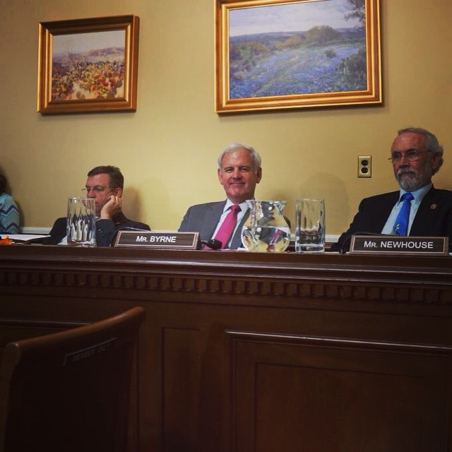 I had a productive first meeting on the House Rules Committee this afternoon. Excited about this new opportunity to make a difference for Southwest Alabama!